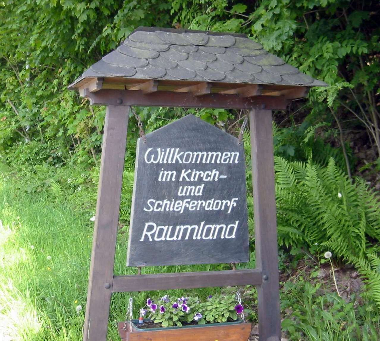 Raumland